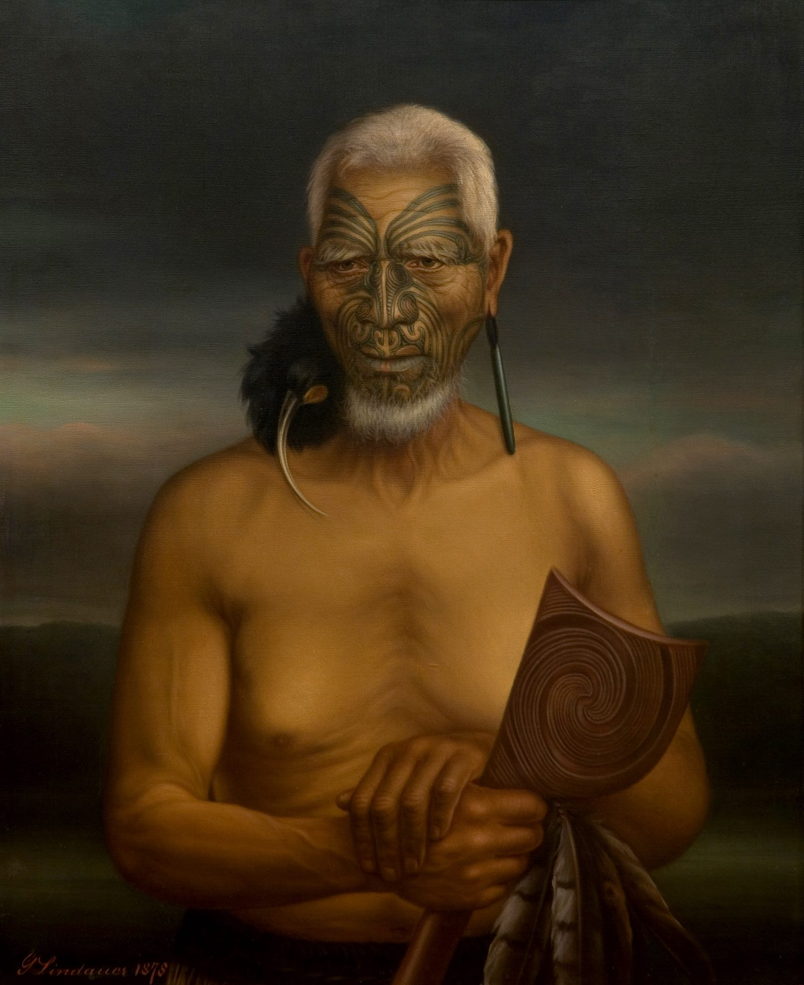 A portrait of Tukukino, by Gottfried Lindauer.